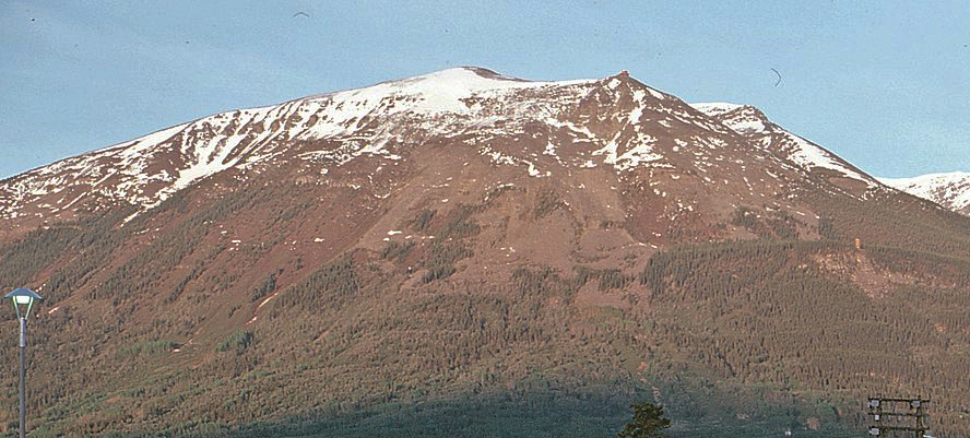 The Whistlers, Jasper National Park, Canada seen from municipality of Jasper